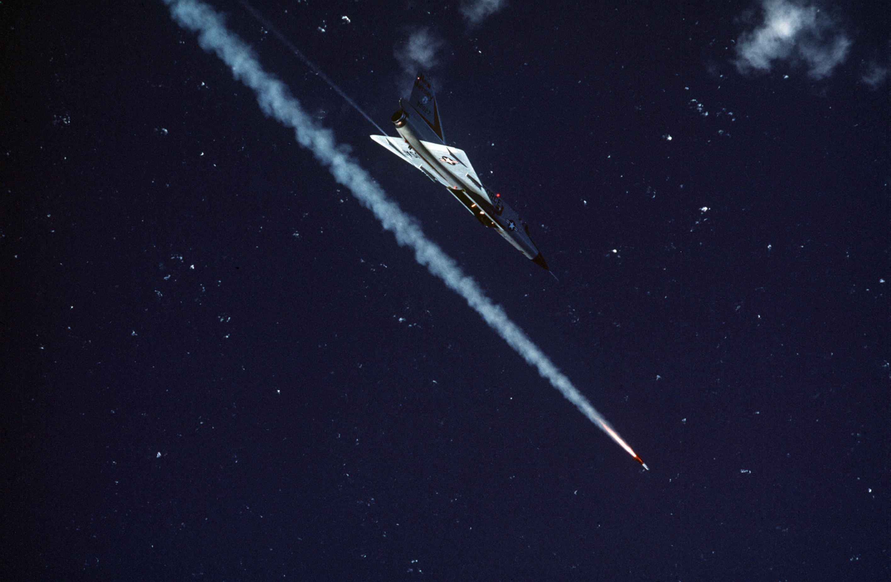 A U.S. Air Force Convair F-106A-105-CO Delta Dart aircraft (s/n 59-0027) from the 119th Fighter Interceptor Squadron, 177th Fighter Interceptor Group, New Jersey Air National Guard, firing an AIM-4 Falcon missile during the air-to-air weapons meet "William Tell '84" in October 1984.